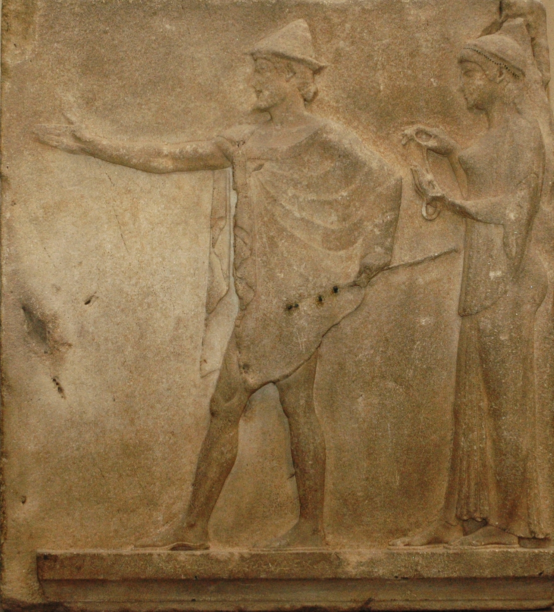 Hermes agoraios and the Charites, relief of the Passage of Theori, from the agora of Thasos. Thasian marble with traces of polychromy on Hermes' shoes and bronze ornaments (Hermes' caduceus, fibulae), ca. 480 BC. Inscription: "To the Charites one may not sacrifice goat nor pig".